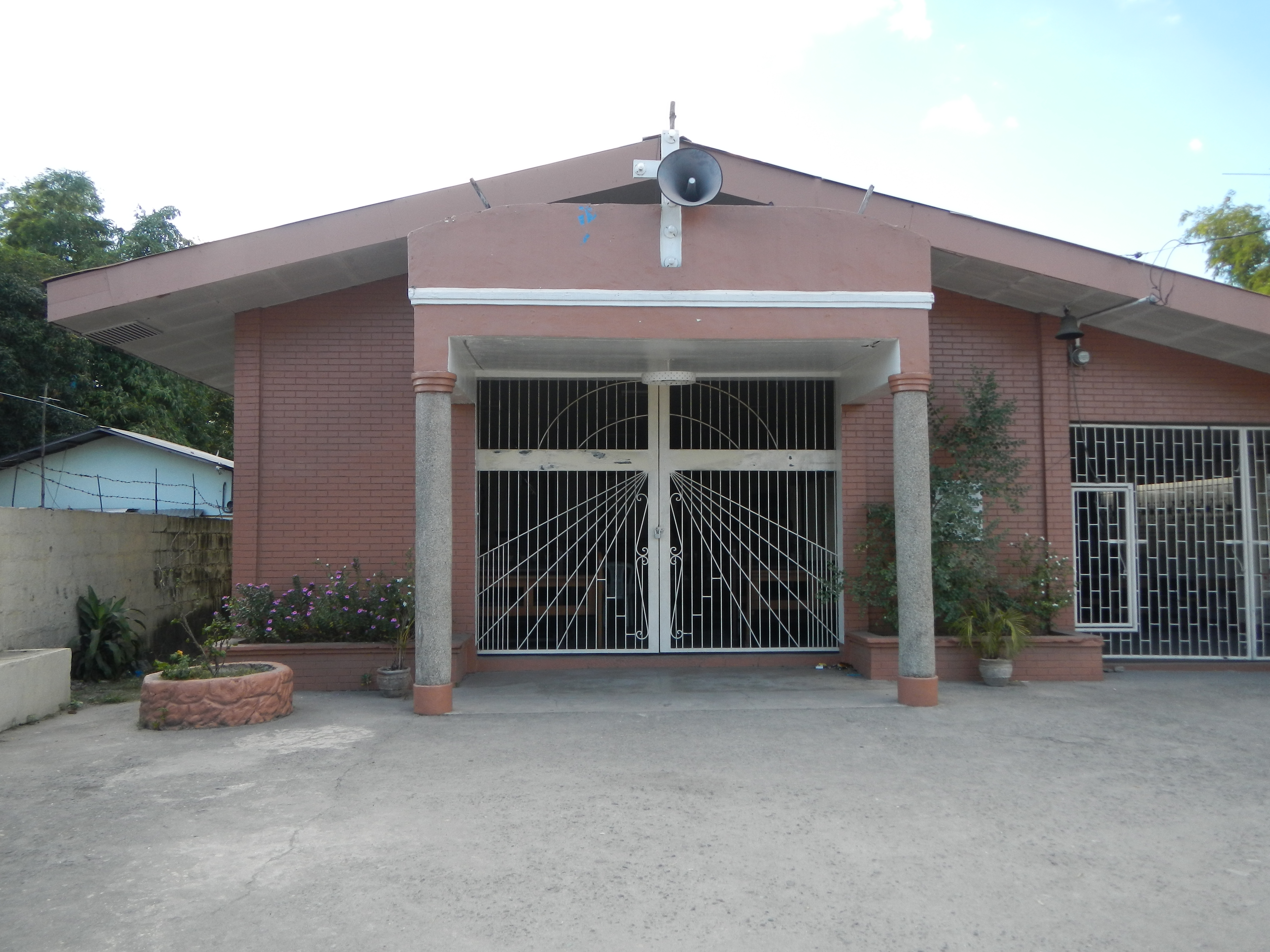 Upload Wizard photos of Fields Avenue in Barangay Balibago and beside it is Barangay Pandan, Angeles[1] City, Pampanga, the Official Seal and Logo, the Flag Seal, the Barangay Hall, and the Flag Seal of Angeles City, all in the Barangay Hall.